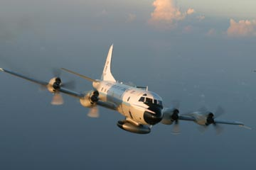 A Lockheed WP-3D Orion of the U.S. National Oceanic & Atmospheric Adminstration (NOAA) in flight.